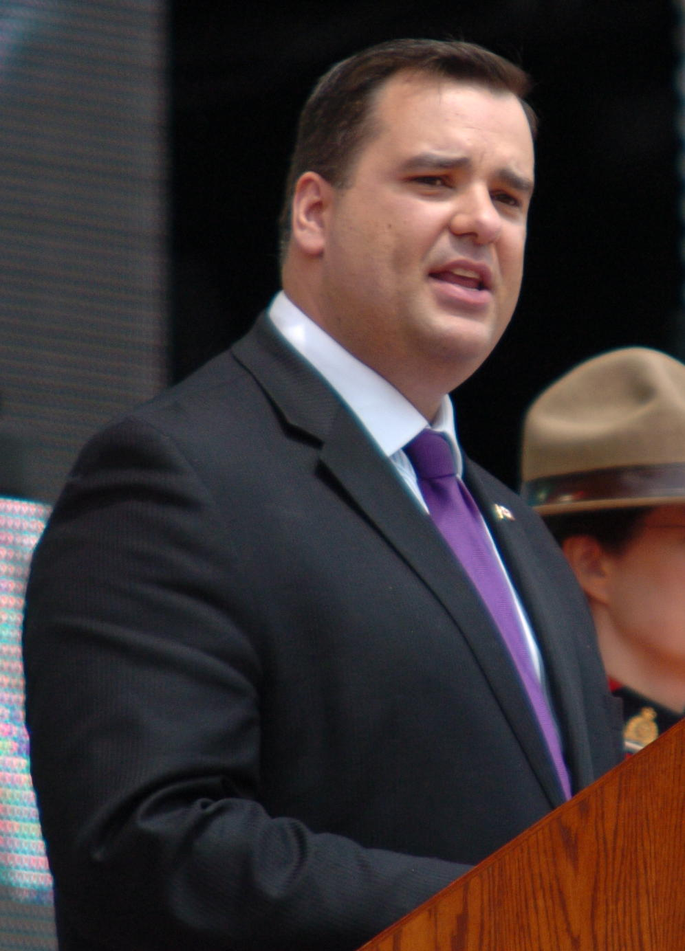 James Moore, Federal Canadian politician from British Columbia.